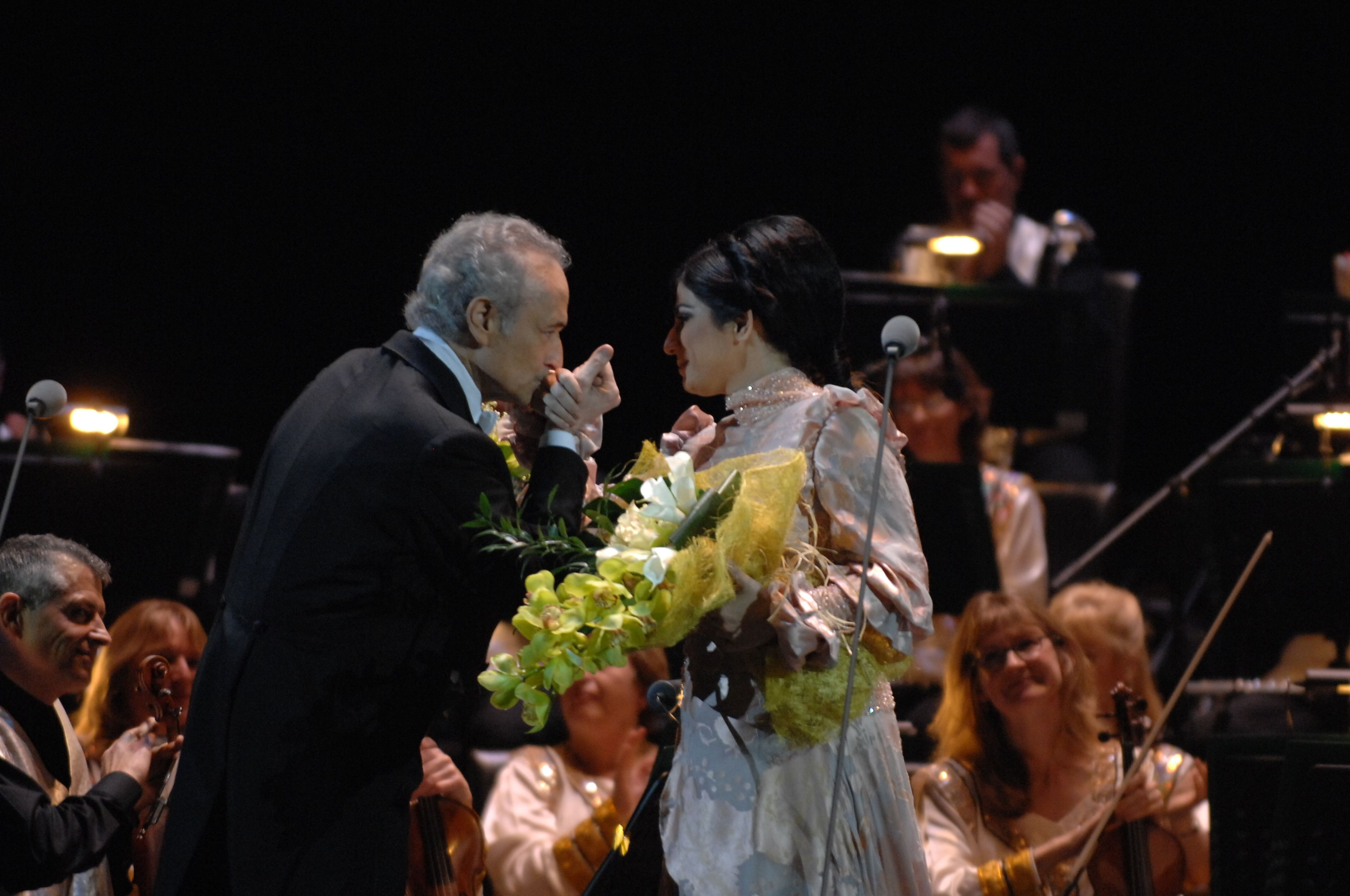 Hiba Al Kawas and Jose Carreras.